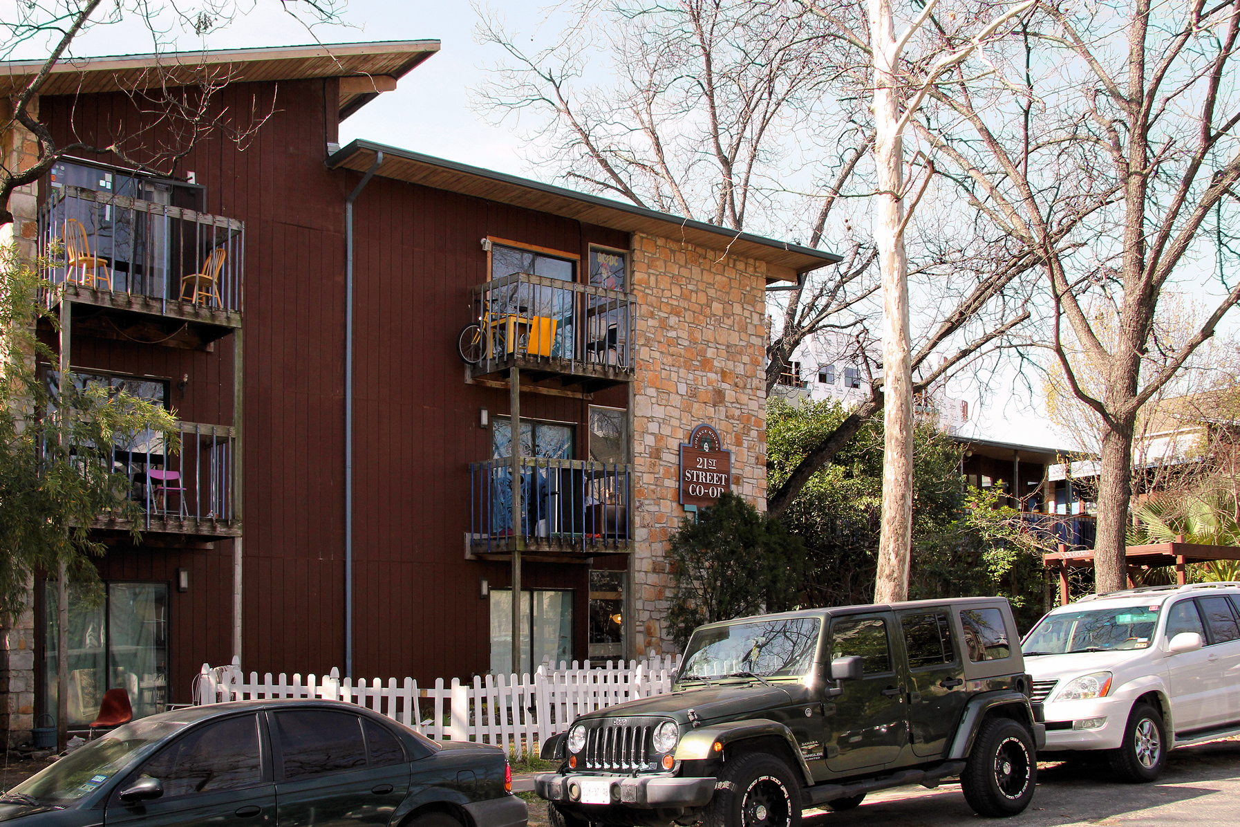 The 21st Street Co-op apartment building provides housing for students at the University of Texas at Austin, Austin, Texas, United States.